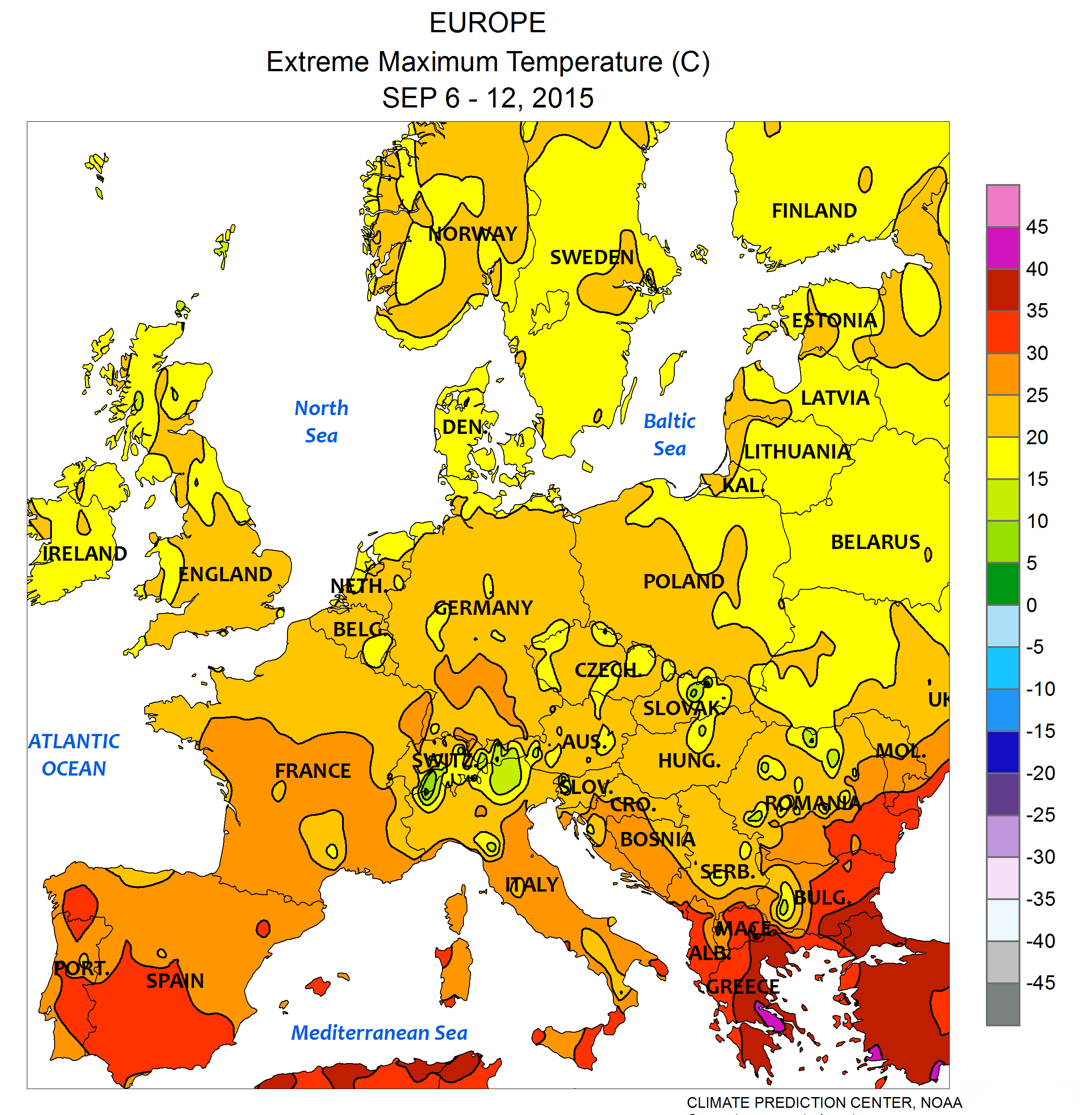 Europe: Extreme maximum temperature September 6 - 12, 2015, computer generated contours, based on preliminary data